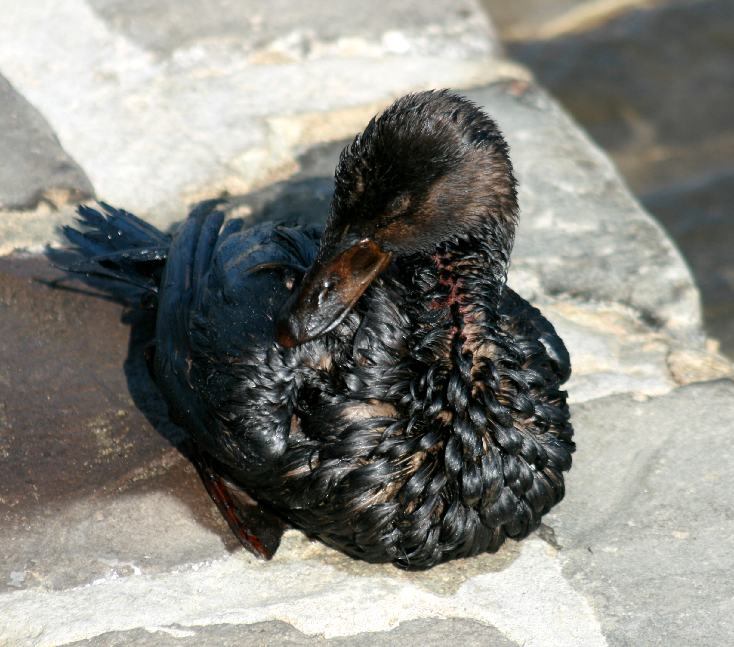 An oiled bird from Oil Spill in San Francisco Bay. About 58,000 gallons of oil spilled from a South Korea-bound container ship when it struck a tower supporting the San Francisco-Oakland Bay Bridge in dense fog on 11/07/07.